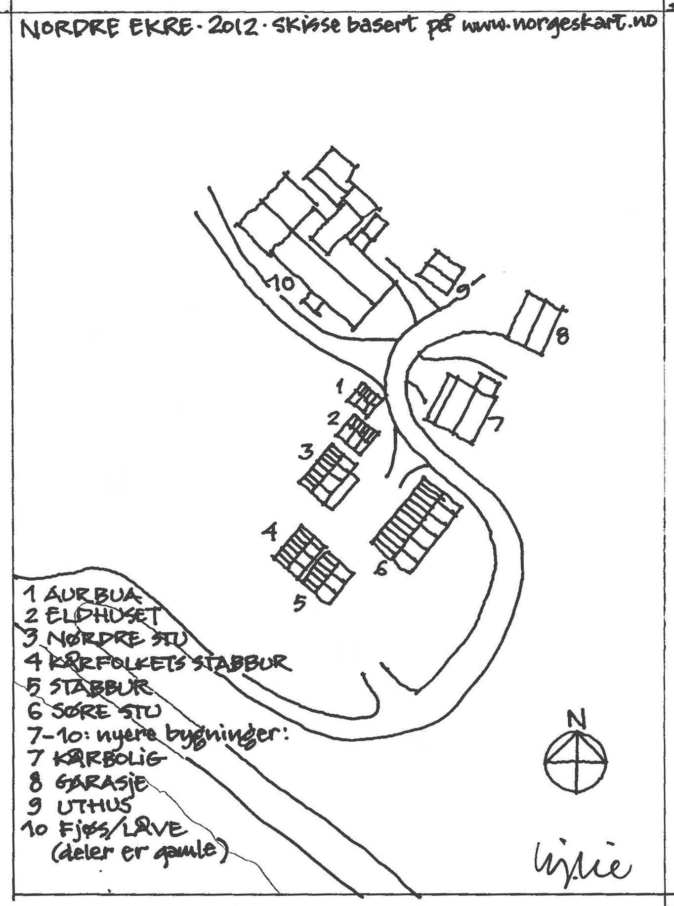 site plan of the farm Nordre Ekre, Nedre Heidal, Norway - sketch showing where the various buildings are located Norsk (bokmål): situasjonsplan av Nordre Ekre, Nedre Heidal. Skissen viser hvor de ulike bygningen er plassert